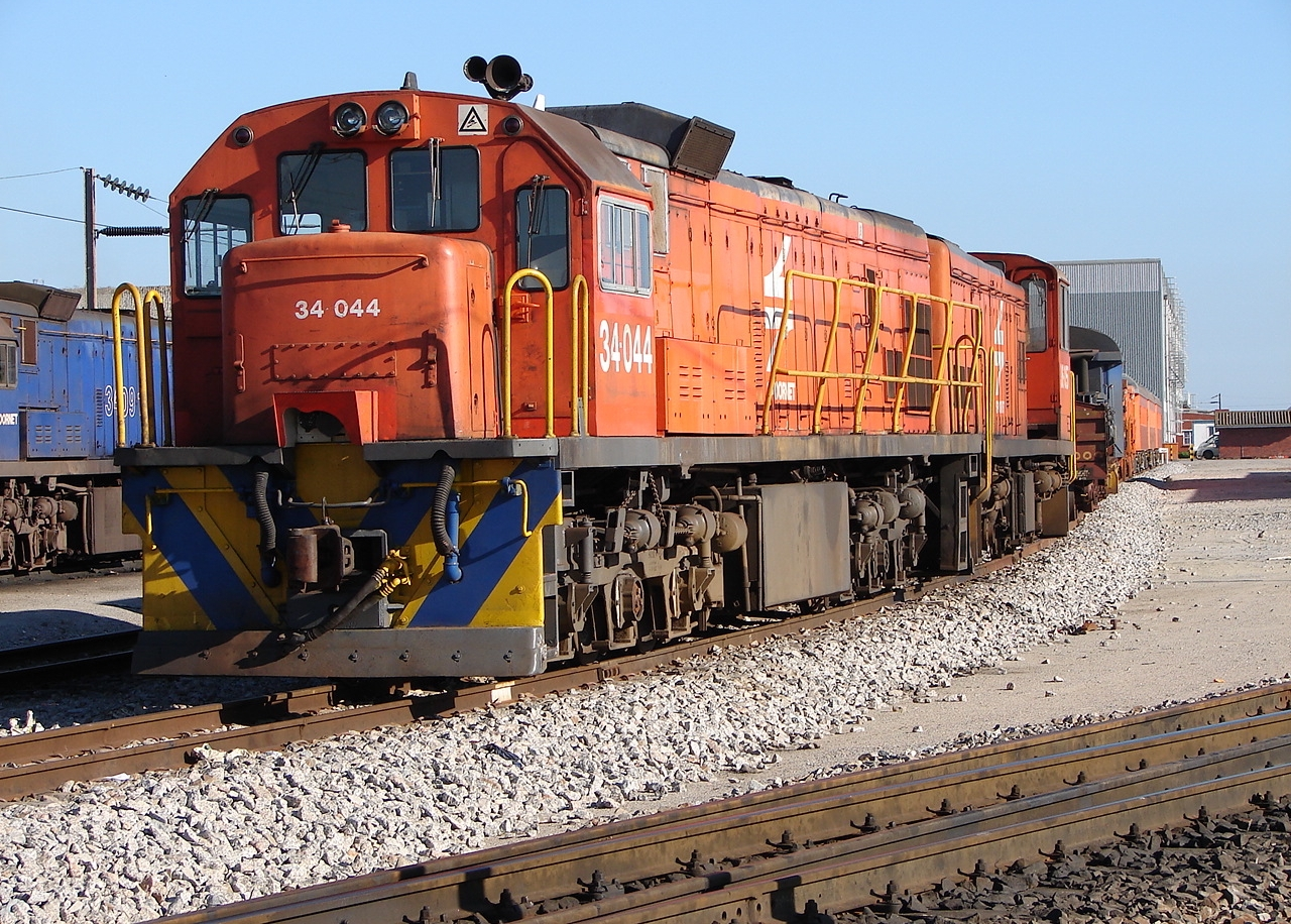 South African Class 34-000 34-044Builder's Number: GE 37853 Type: GE U26CLocation: Saldanha, Western Cape